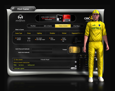 CR's Game Host Menu